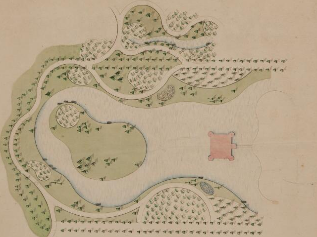 Garden disign Biljoen Velp Netherlands